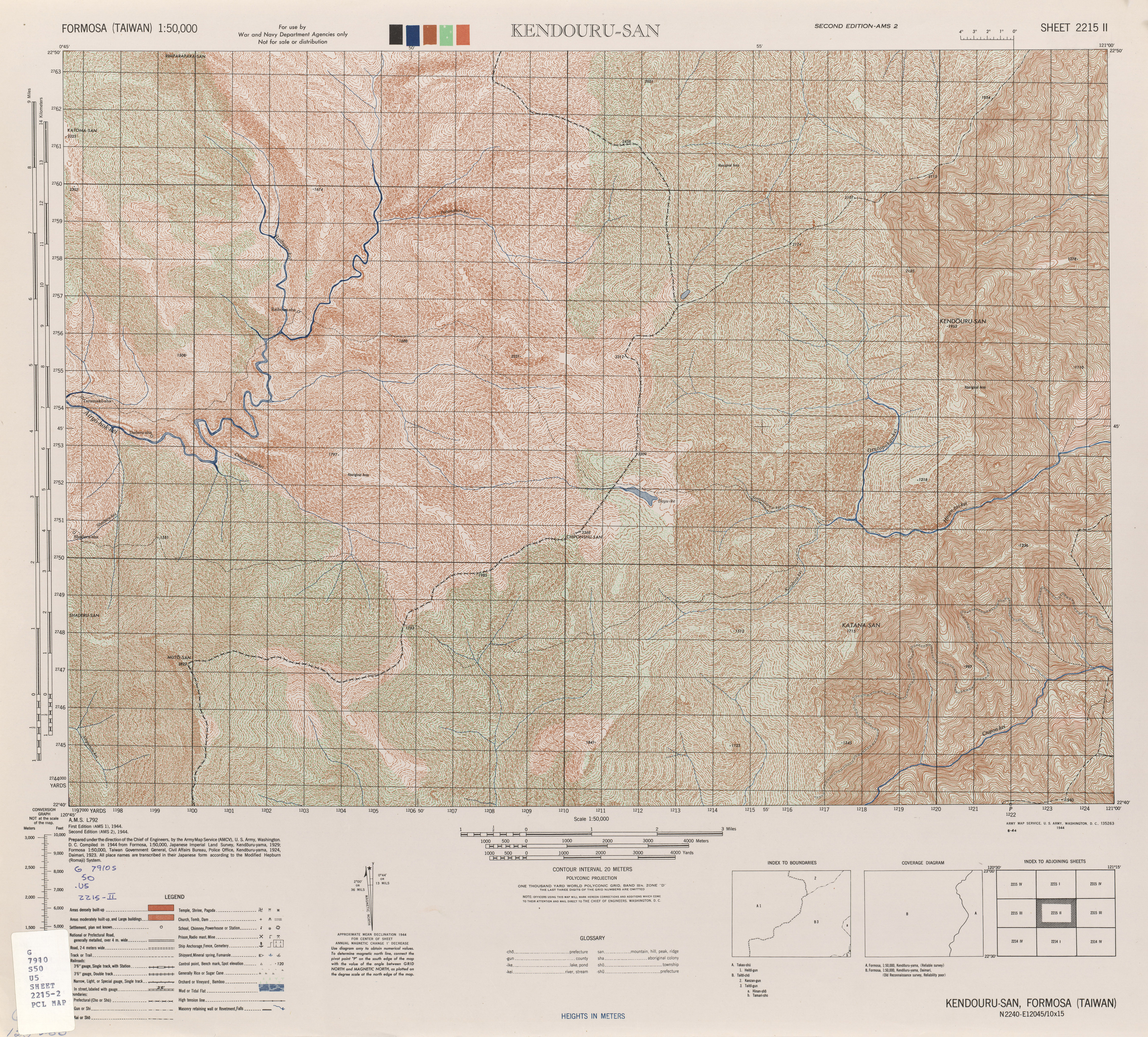 Map of Formosa (Taiwan) 1:50,000 AMS Series L792